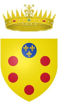 Coat of arms of the Grand Duke of Tuscany